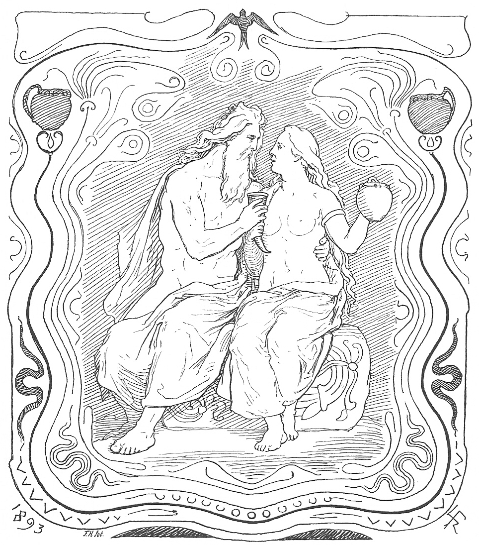 Odin embraces Gunnlöð while she holds a container full of the Mead of Poetry, accompying description found in Hávamál.